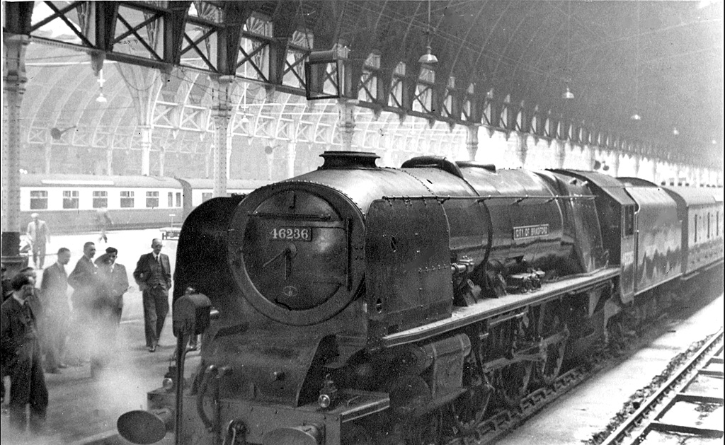 The 1948 Exchange Trials: an LMS Pacific at Paddington on an express from Plymouth. View westward, from near buffers. Stanier 'Coronation' 8P 4-6-2 No. 46236 'City of Bradford' has some admirers - but with no dynamometer car this was a 'dummy run'.